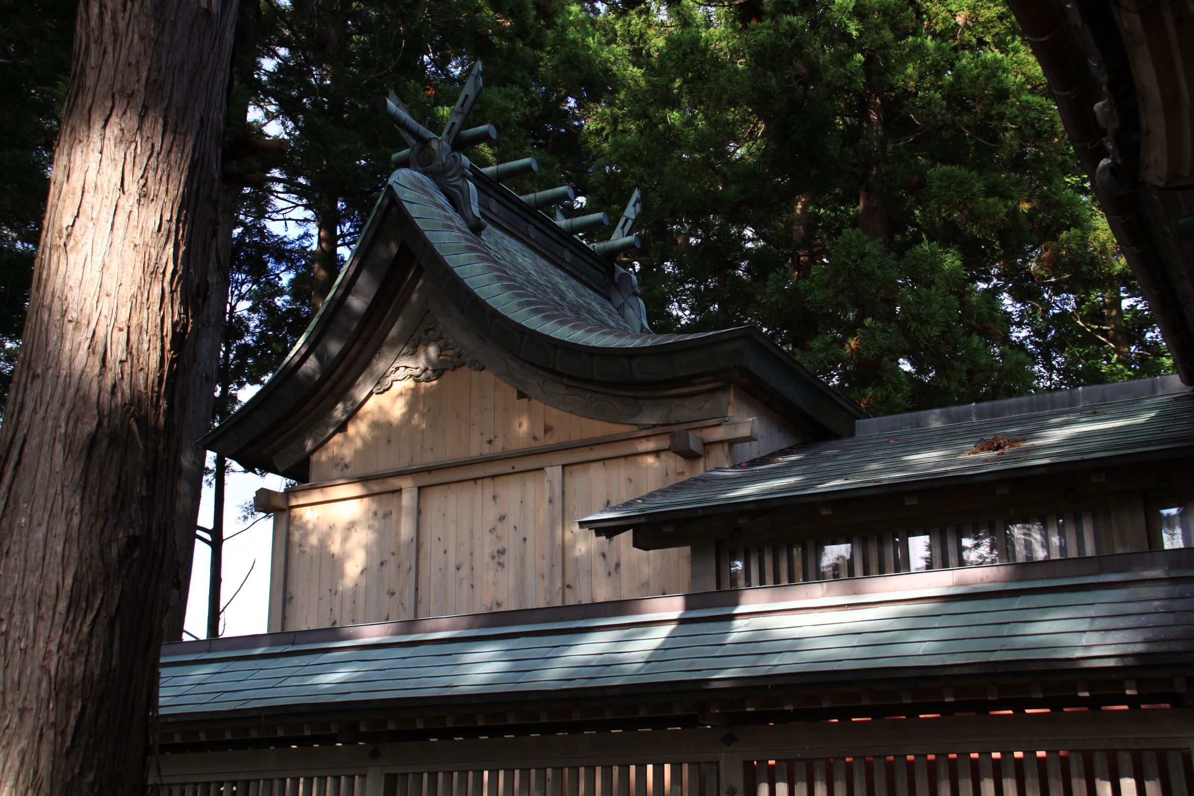 Kinowa jinja Honden